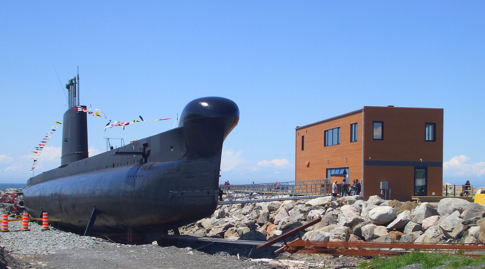 Museum ship NCSM Onondaga.